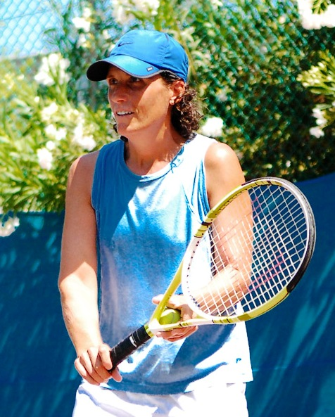 Ilana Berger, 2008